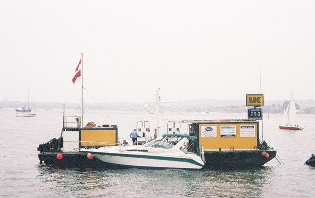 Dorset's remotest petrol station